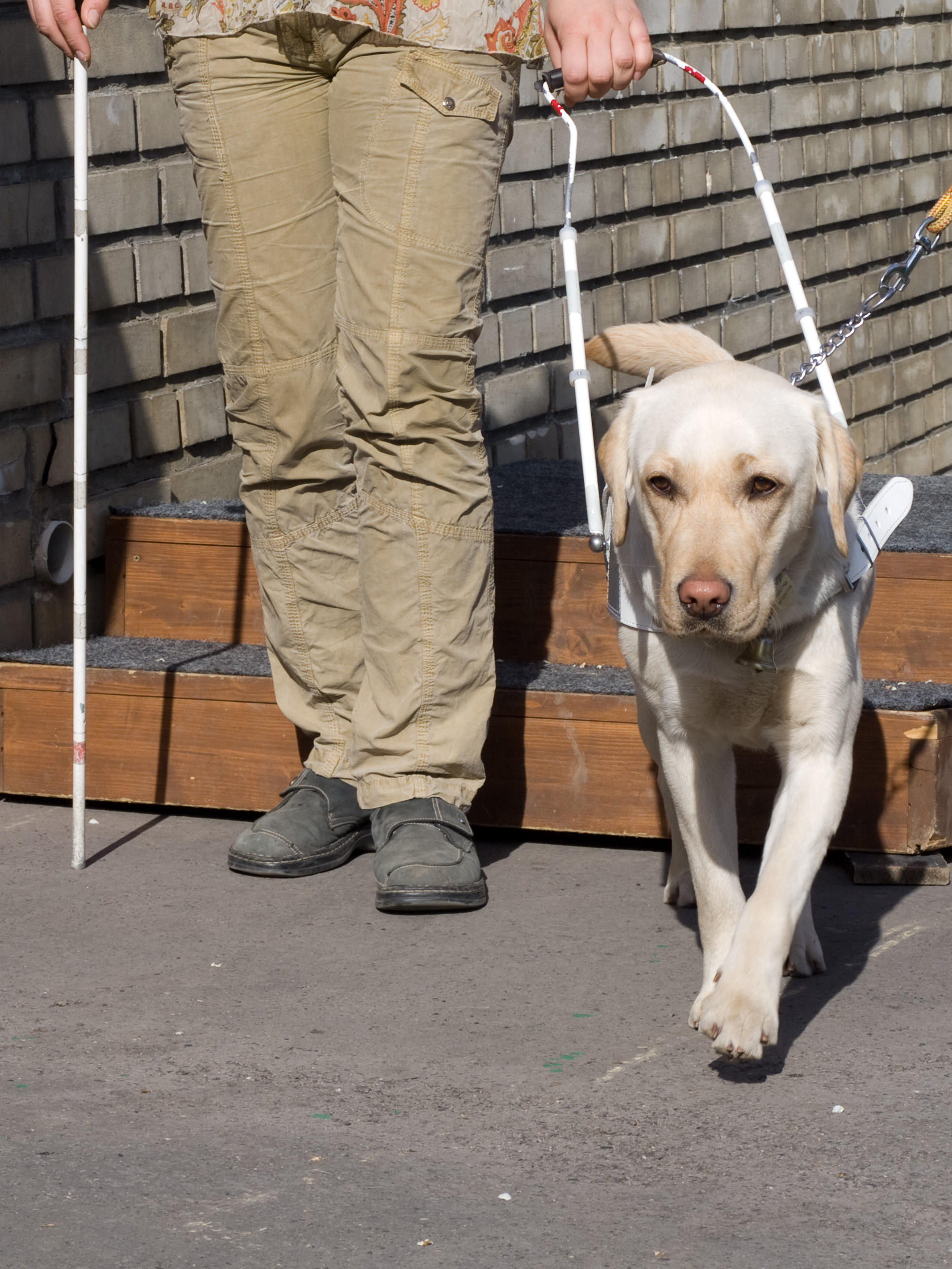 Dog guiding blind woman, Czech guide dog school Klikatá, Prague 5